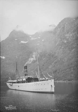 Norwegian passengership DS Kong Harald (built in 1890) in Trollfjorden. This ship were employed in the coastal express service (Hurtigruten) between 1919 and 1950.